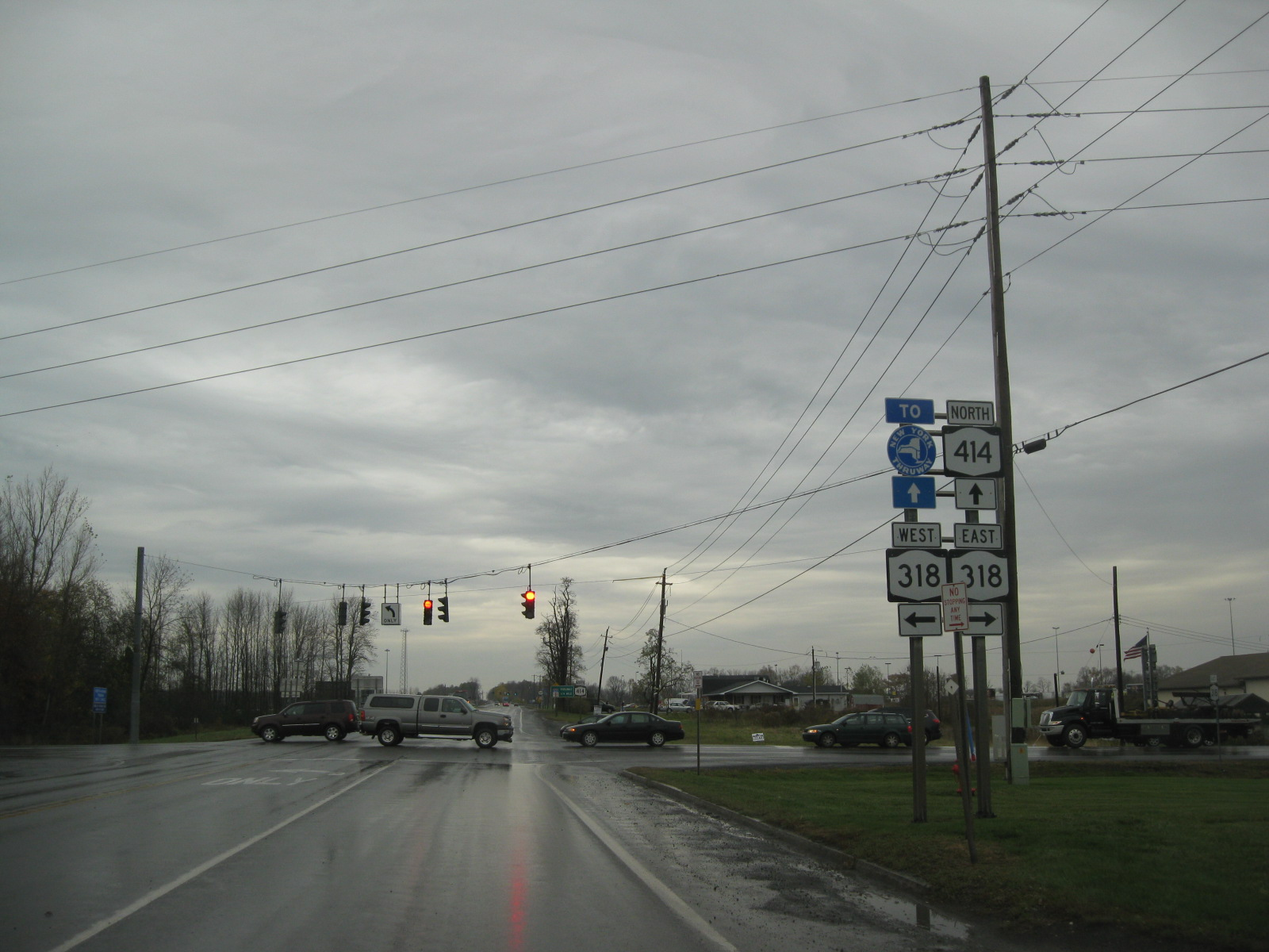 Northbound on New York State Route 414 at New York State Route 318 in Tyre.